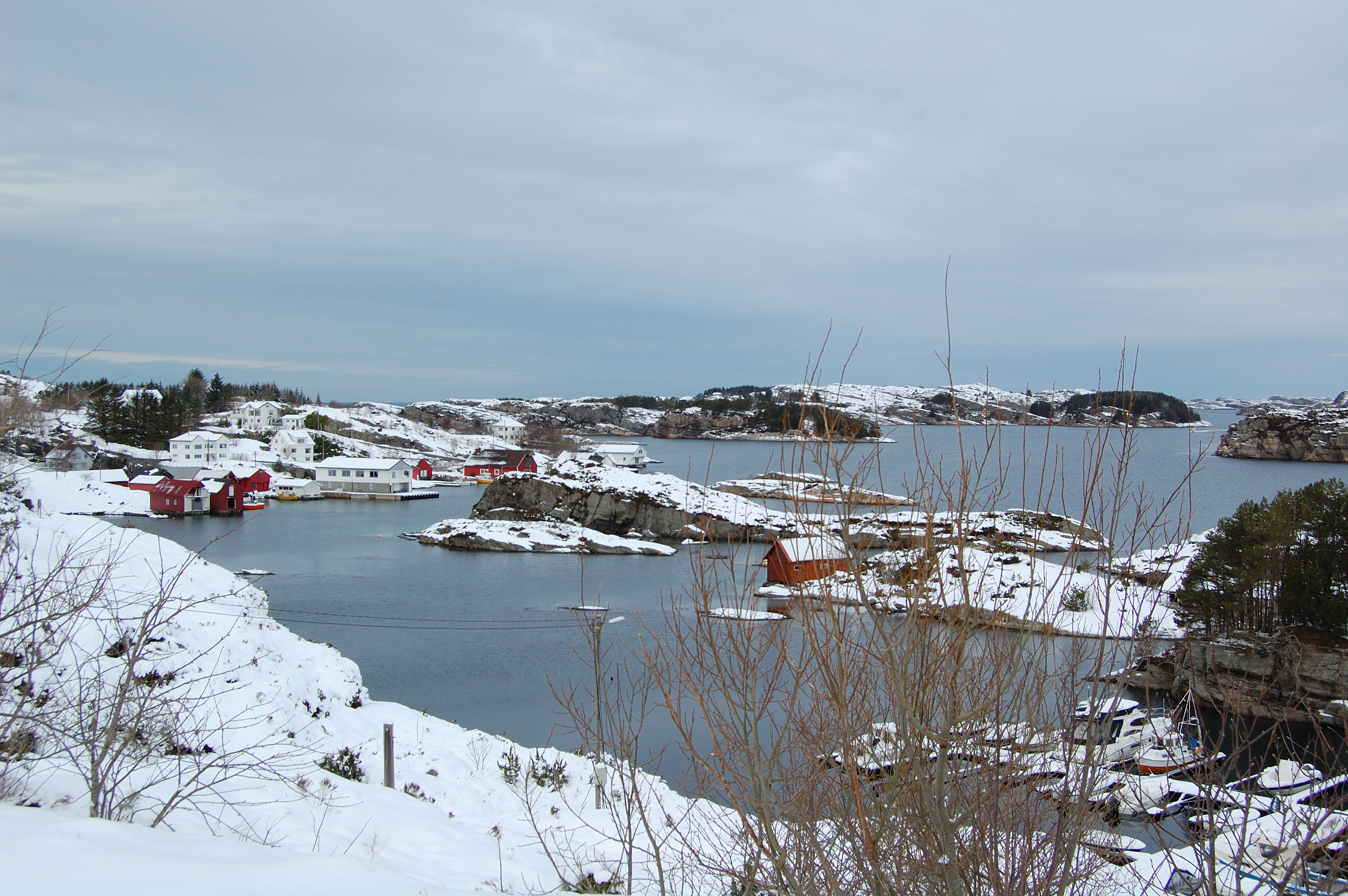 The island of Algrøyna in Hordaland, Norway.